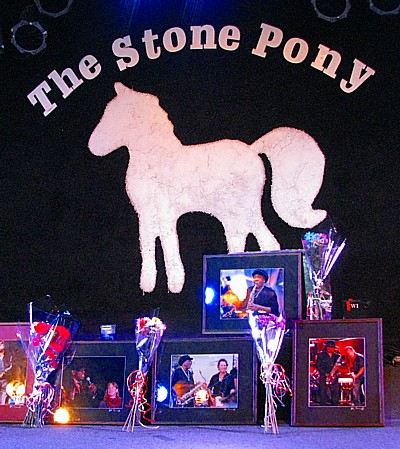 Stage display memorial for Clarence Clemons at The Stone Pony, June, 2011